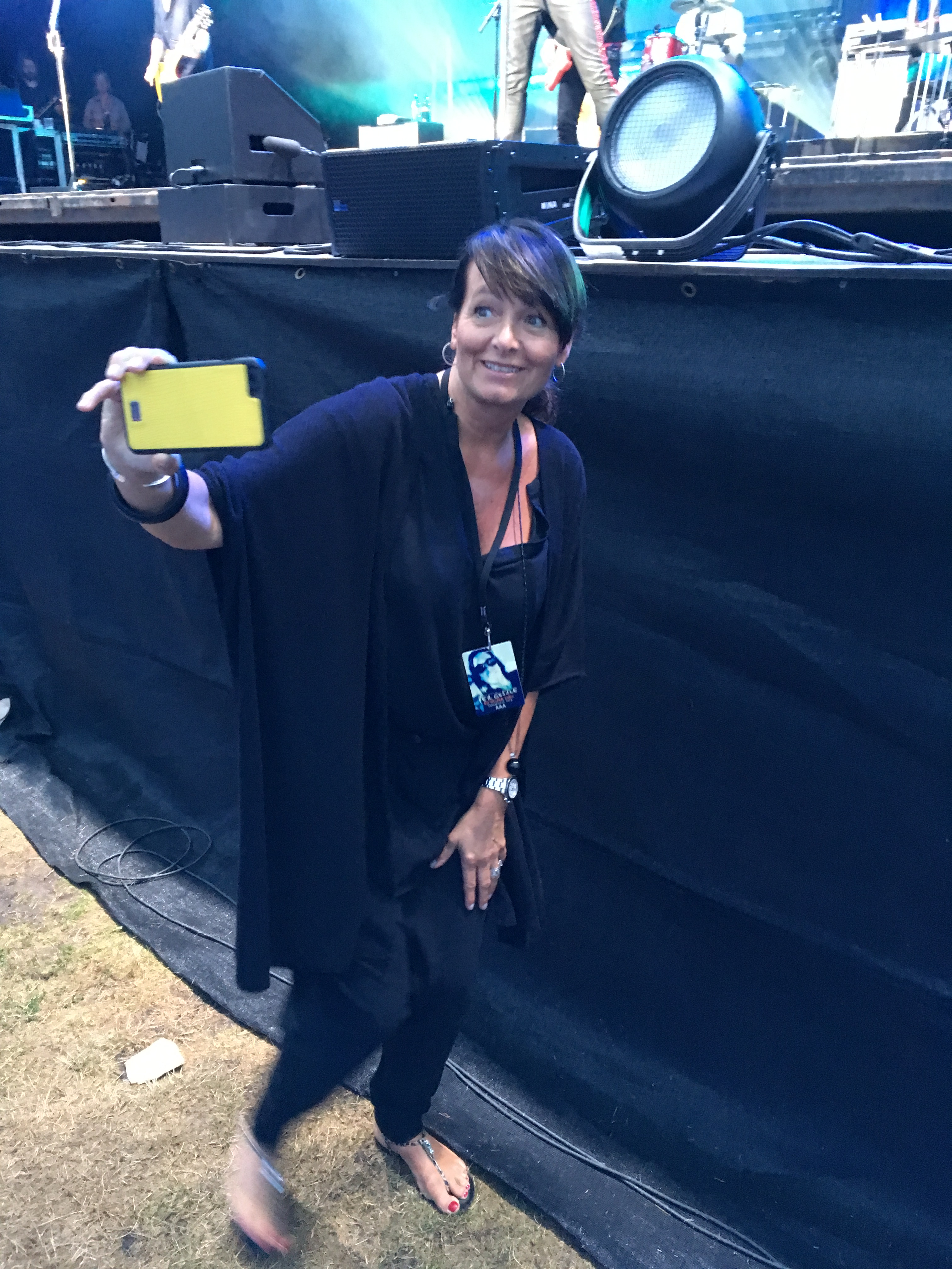 Åsa Gessle films the performance and publicum during Per Gessle's concert in Grebbestad, Sweden on 21. July, 2017